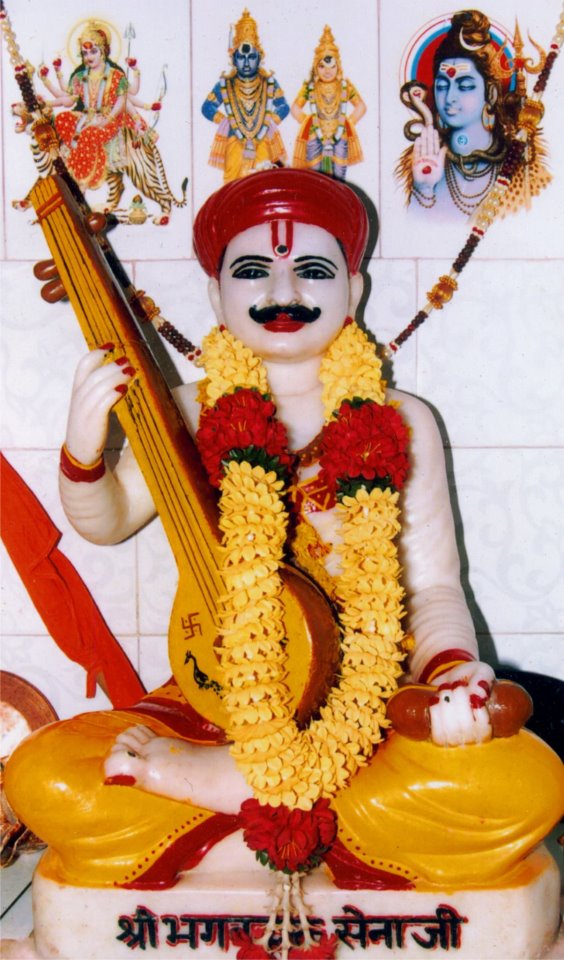 Statue of Sant Sena Maharaj in Sant Sena Mandir, Chatpalli Building JC Nagar Hubli.